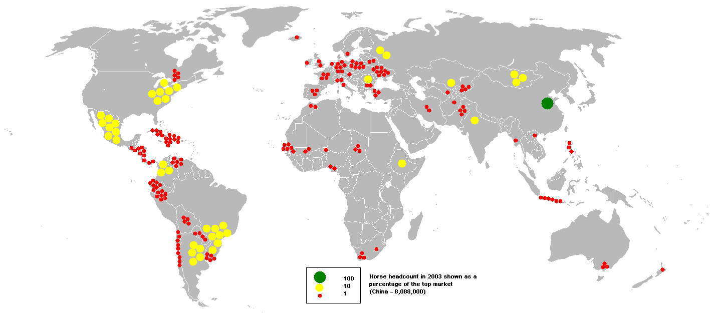 This bubble map shows the global distribution of horses in 2003 as a percentage of the top market (China - 8,088,000). This map is consistent with incomplete set of data too as long as the top market is known. It resolves the accessibility issues faced by colour-coded maps that may not be properly rendered in old computer screens. Data was extracted on 11th June 2007 from Based on Image:BlankMap-World.png